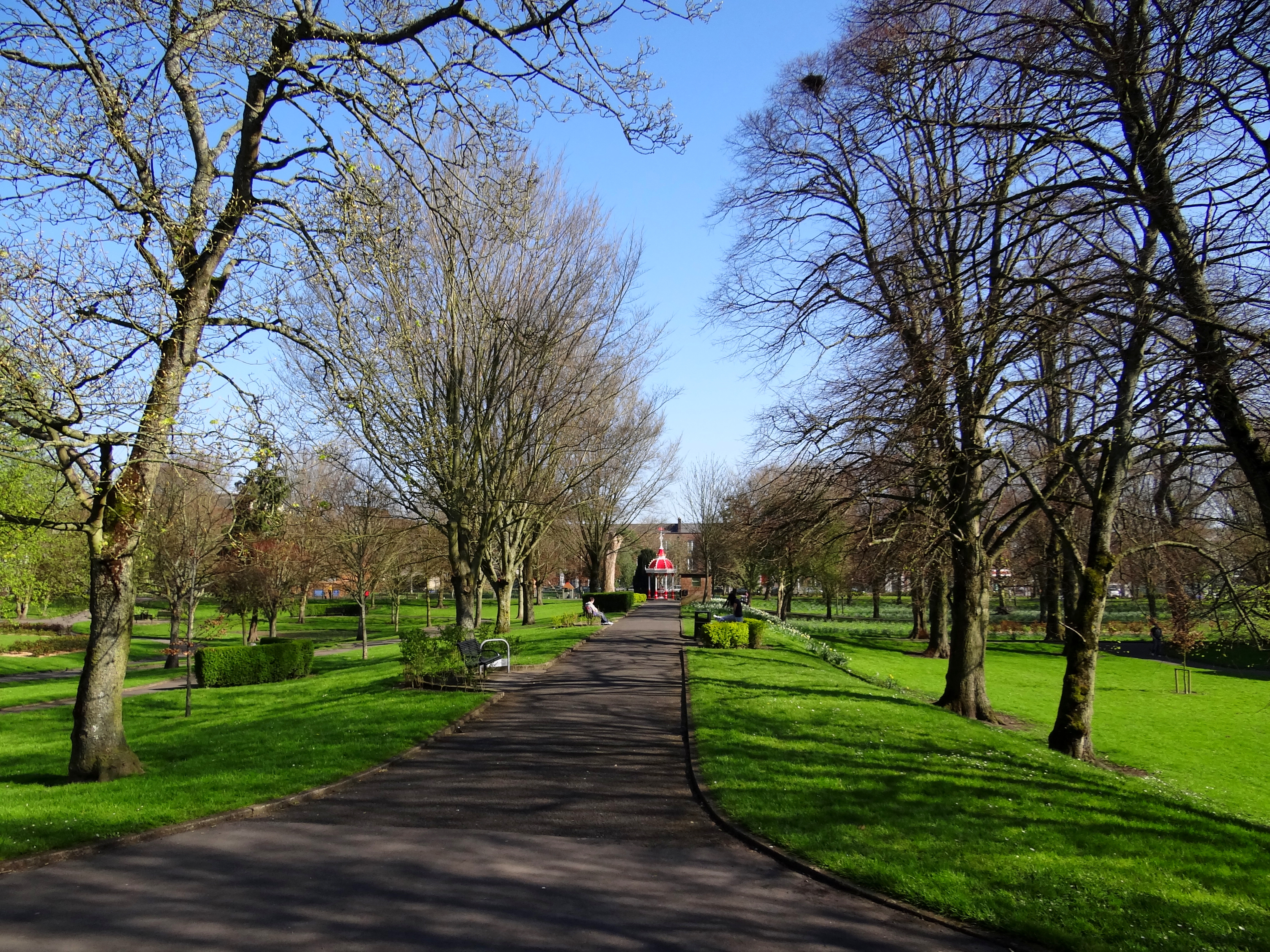 One of the trails through the People's Park in Limerick City, Ireland.